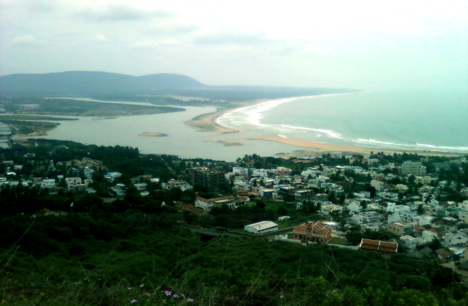 View of Gosthani Estuary into Bay of Bengal at Bheemunipatnam